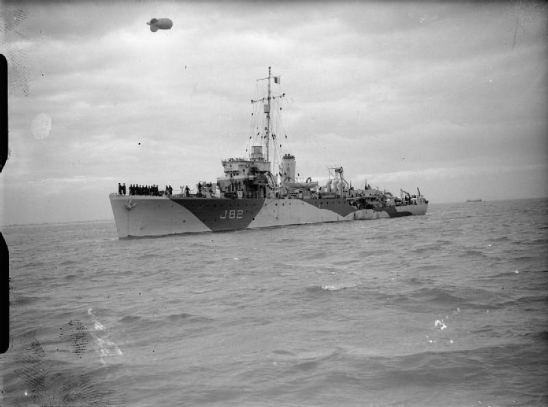 Photograph of British Halcyon class minesweeper HMS Hussar.